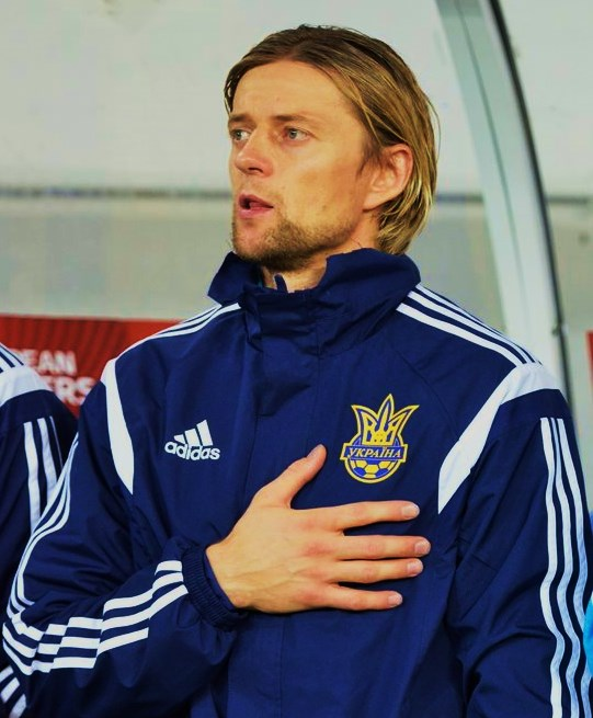 Anatoliy Tymoshchuk